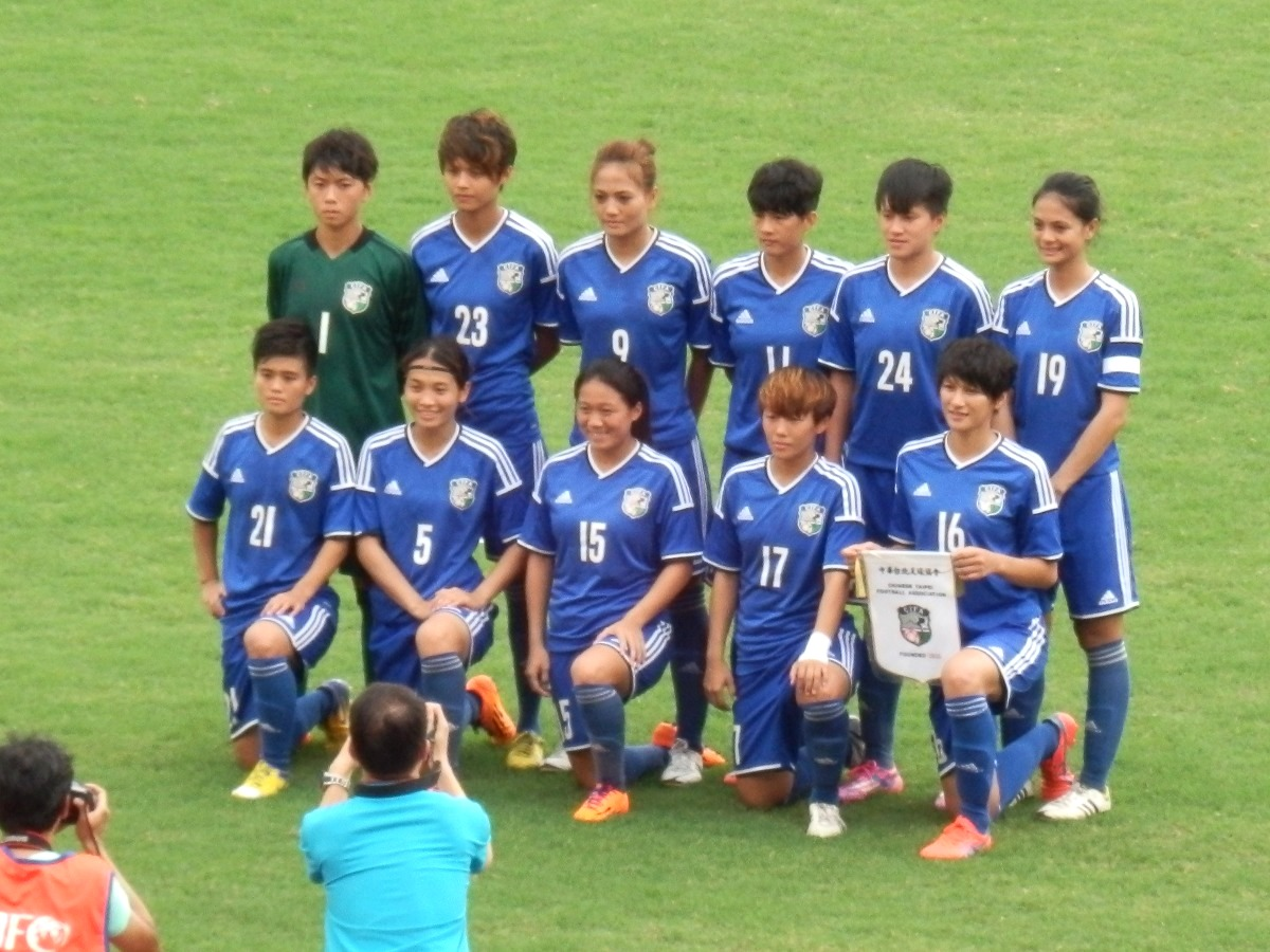 Chinese Taipei women's national football team against Hong Kong at a friendly match on August 30, 2014